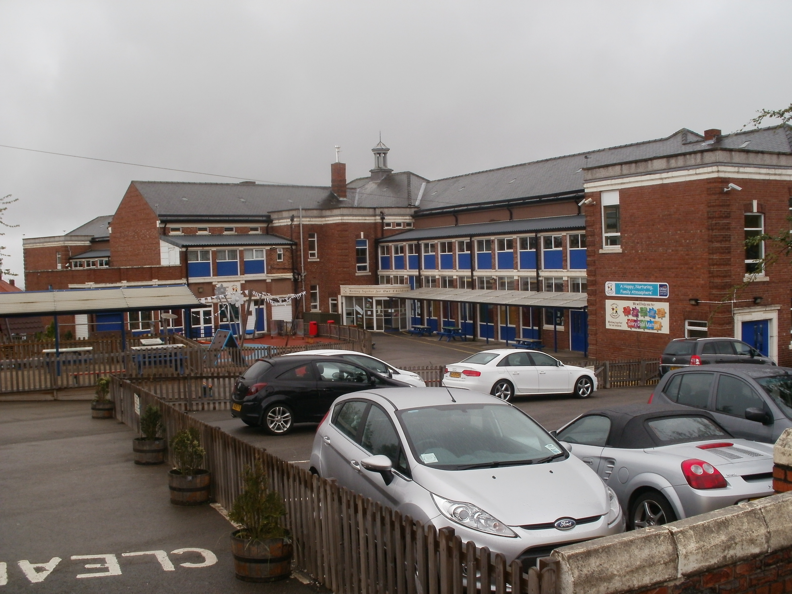 Carr Hill Primary School, Carr Hill, Gateshead from Carr Hill Road